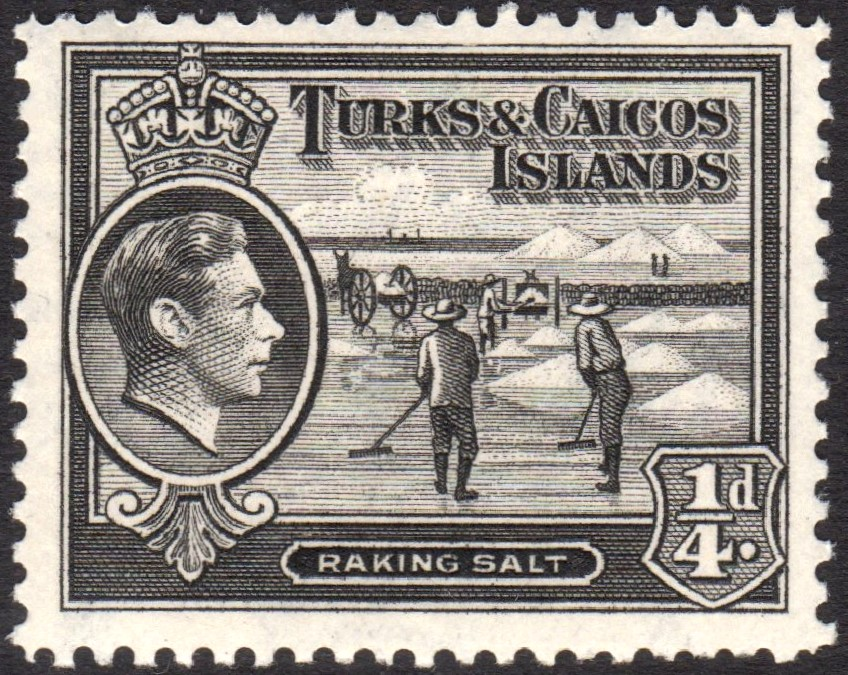 Stamp